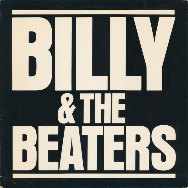 Cover art of the 1981 self-titled album by Billy and the Beaters